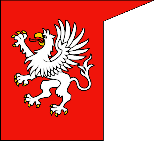 Banner of Gryf Coat of Arms